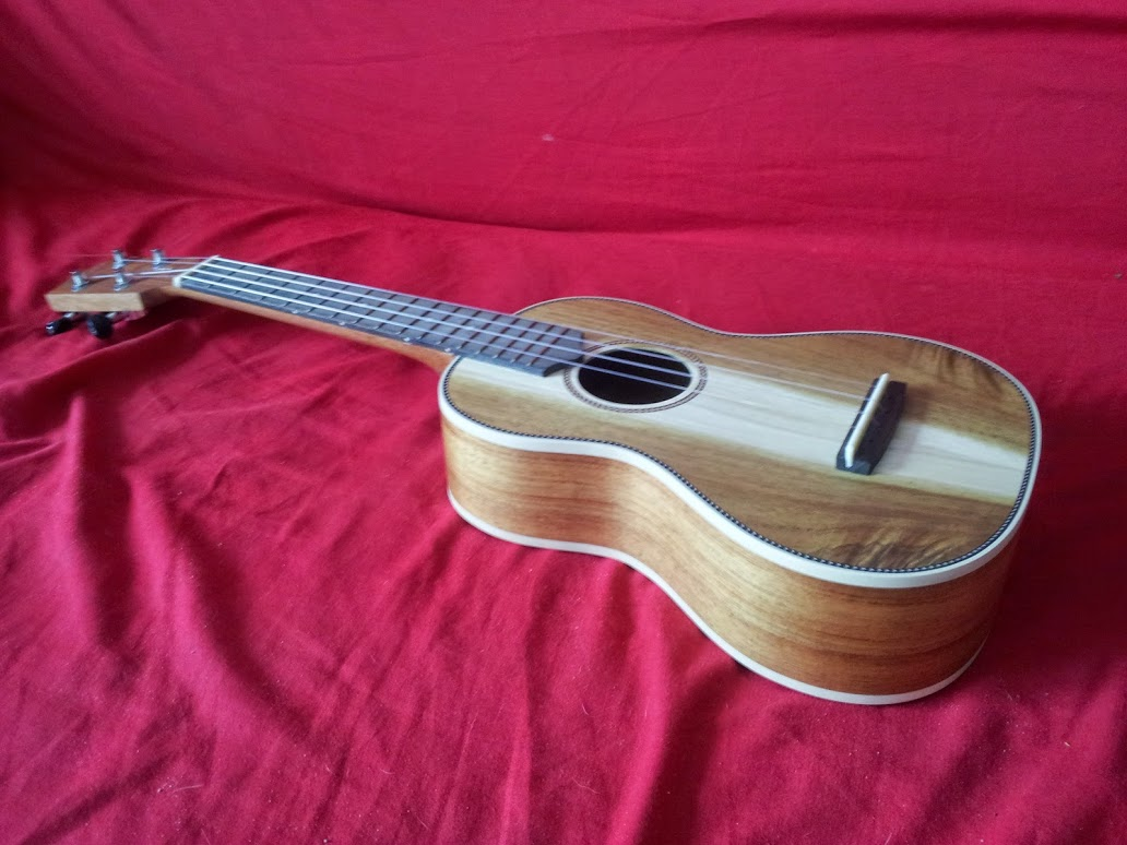 Risa concert ukulele